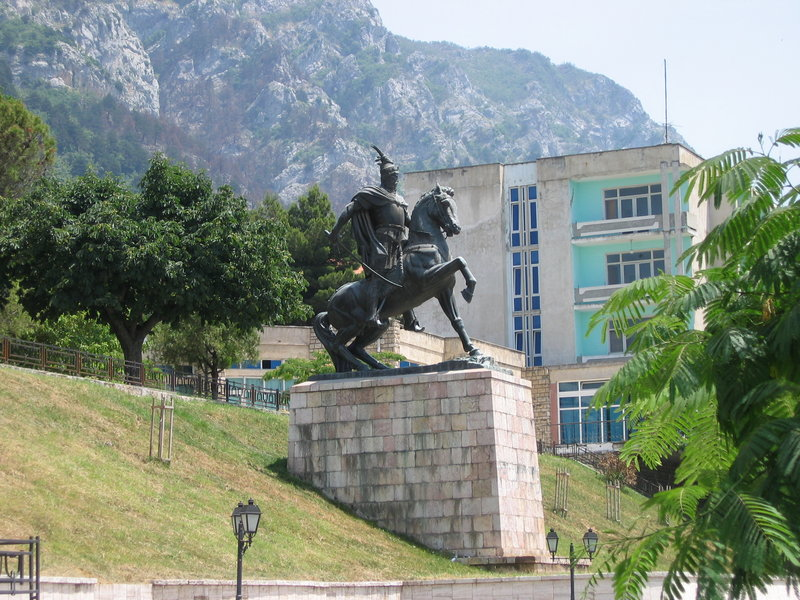 This is a picture of a statue of the Albanian National hero, Gjergj Kastrioti Skenderbeg, in the city of Kruja, Albania.